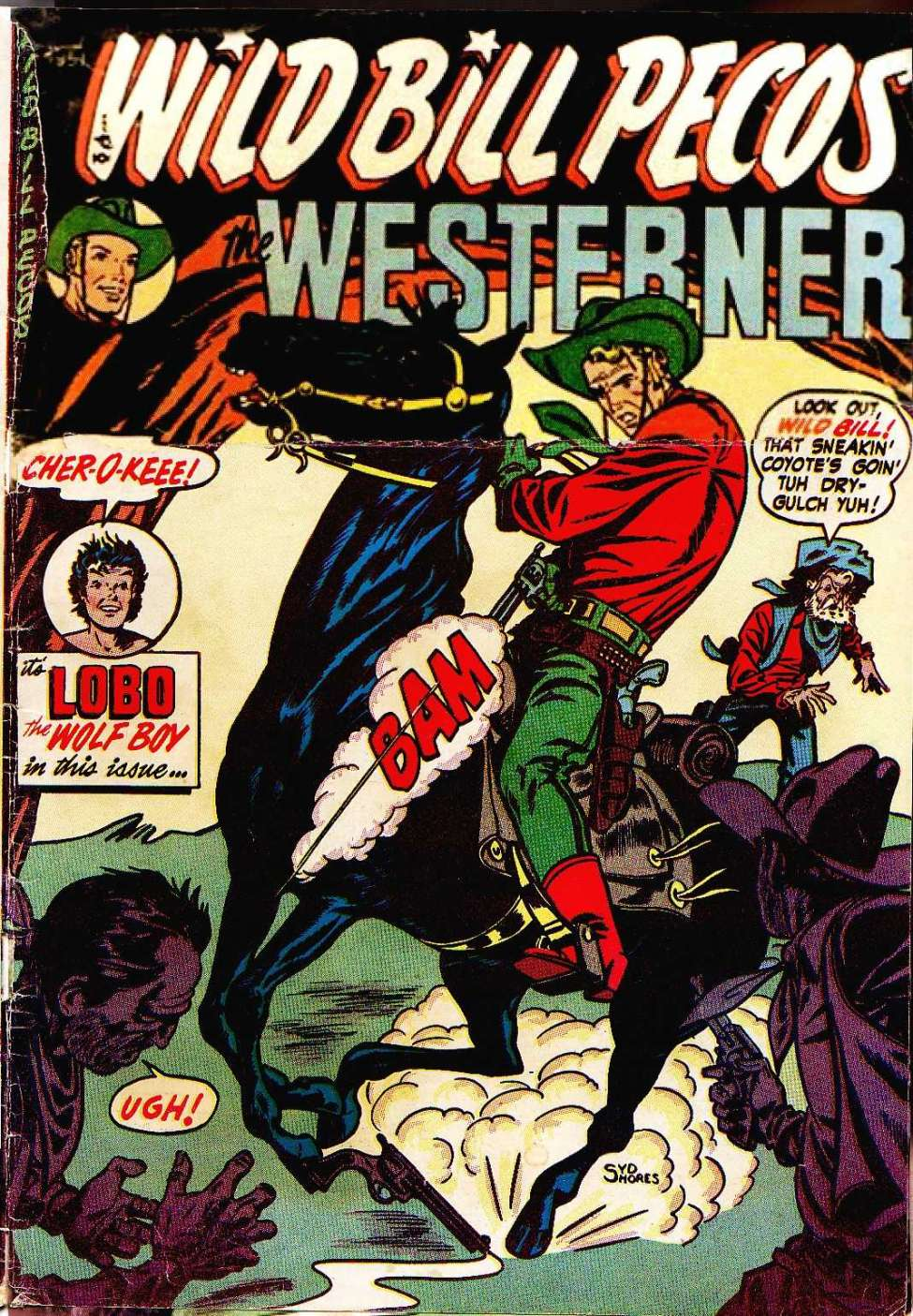 Wild Bill Pecos in the cover of the comic book The Westerner #39 (1951